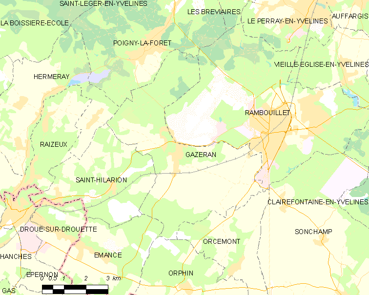 Map of French municipality Gazeran